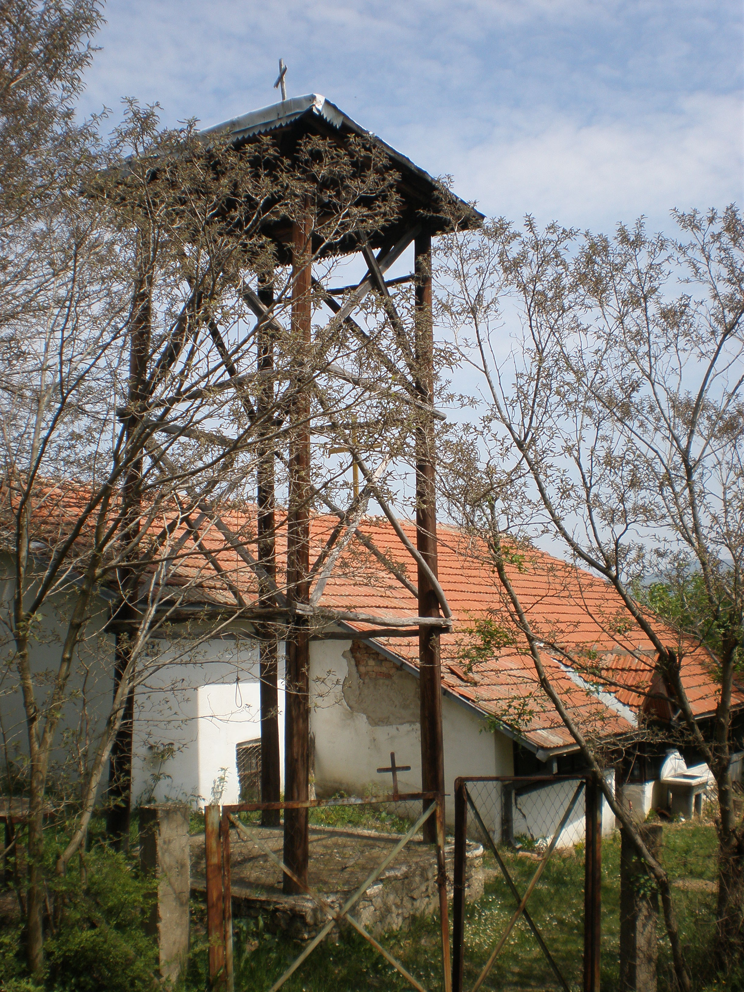 The church of St. George in village of Blace, Macedonia